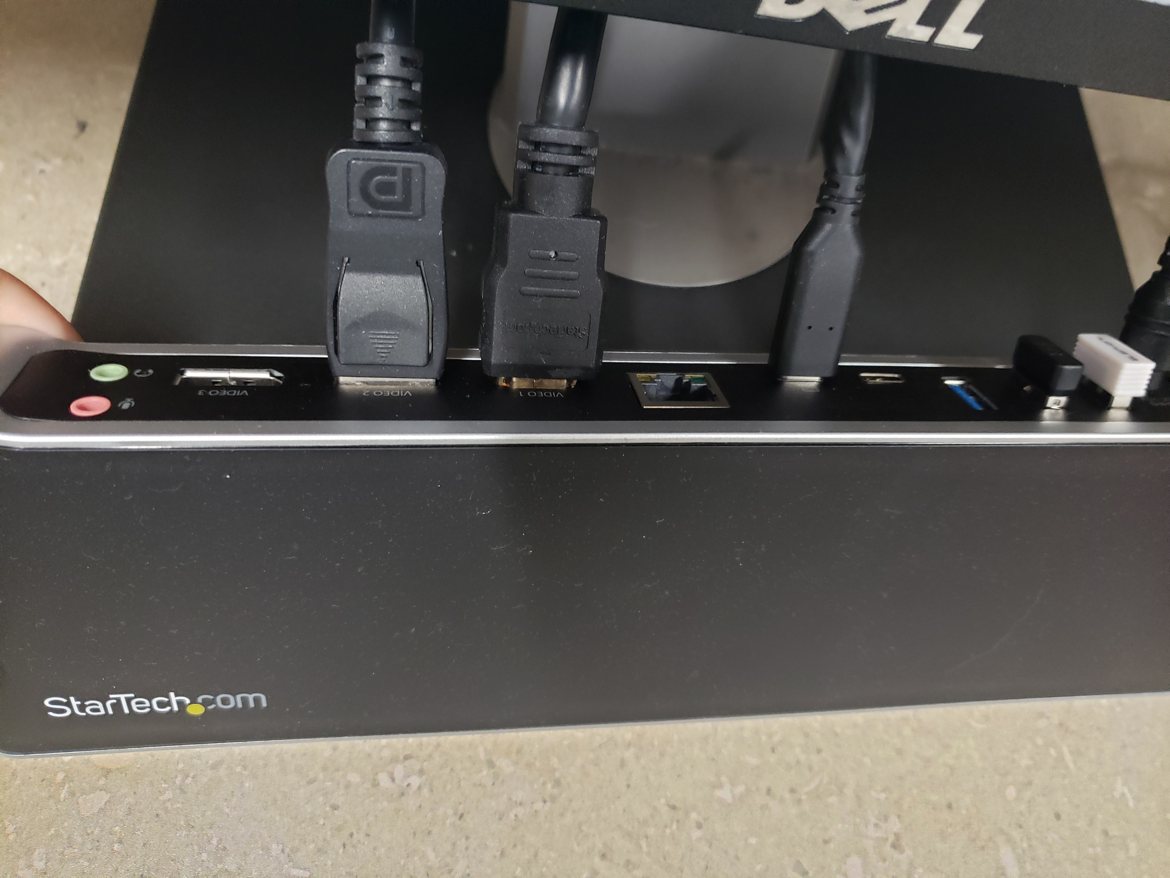 USB-C third party triple monitor dock - rear port view